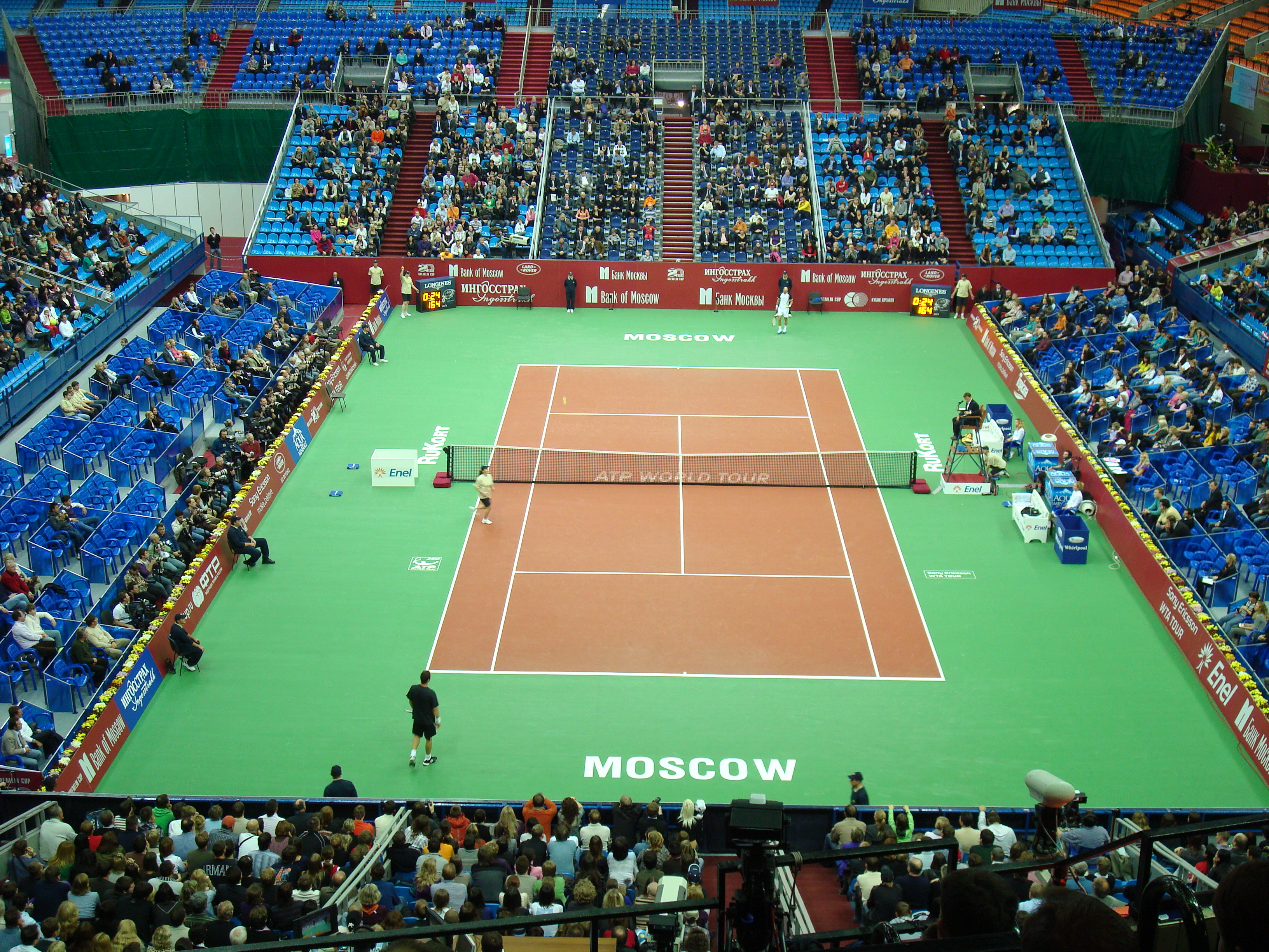 Match Marat Safin vs Nikolay Davydenko at 2009 Kremlin Cup in Moscow.